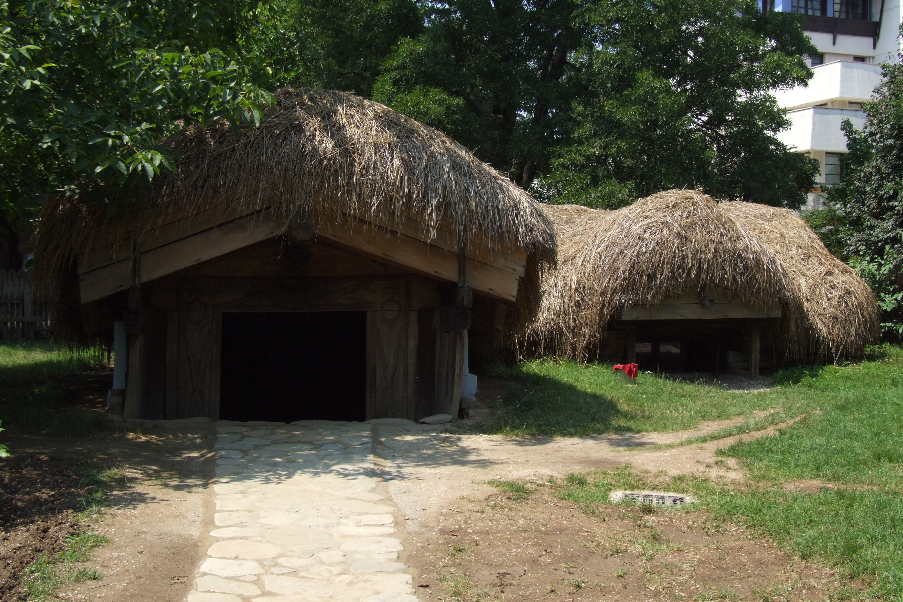 Bucharest - Village Museum. Houses from Drăghiceni